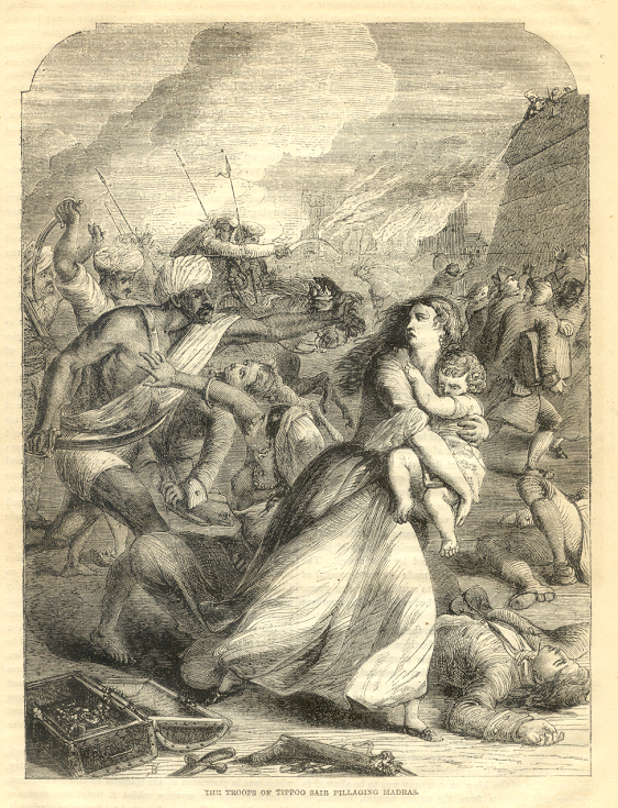 The British also returned the favor by demonizing Tipu: "The troops of Tippoo Saib pillaging Madras" (an engraving from 1861)